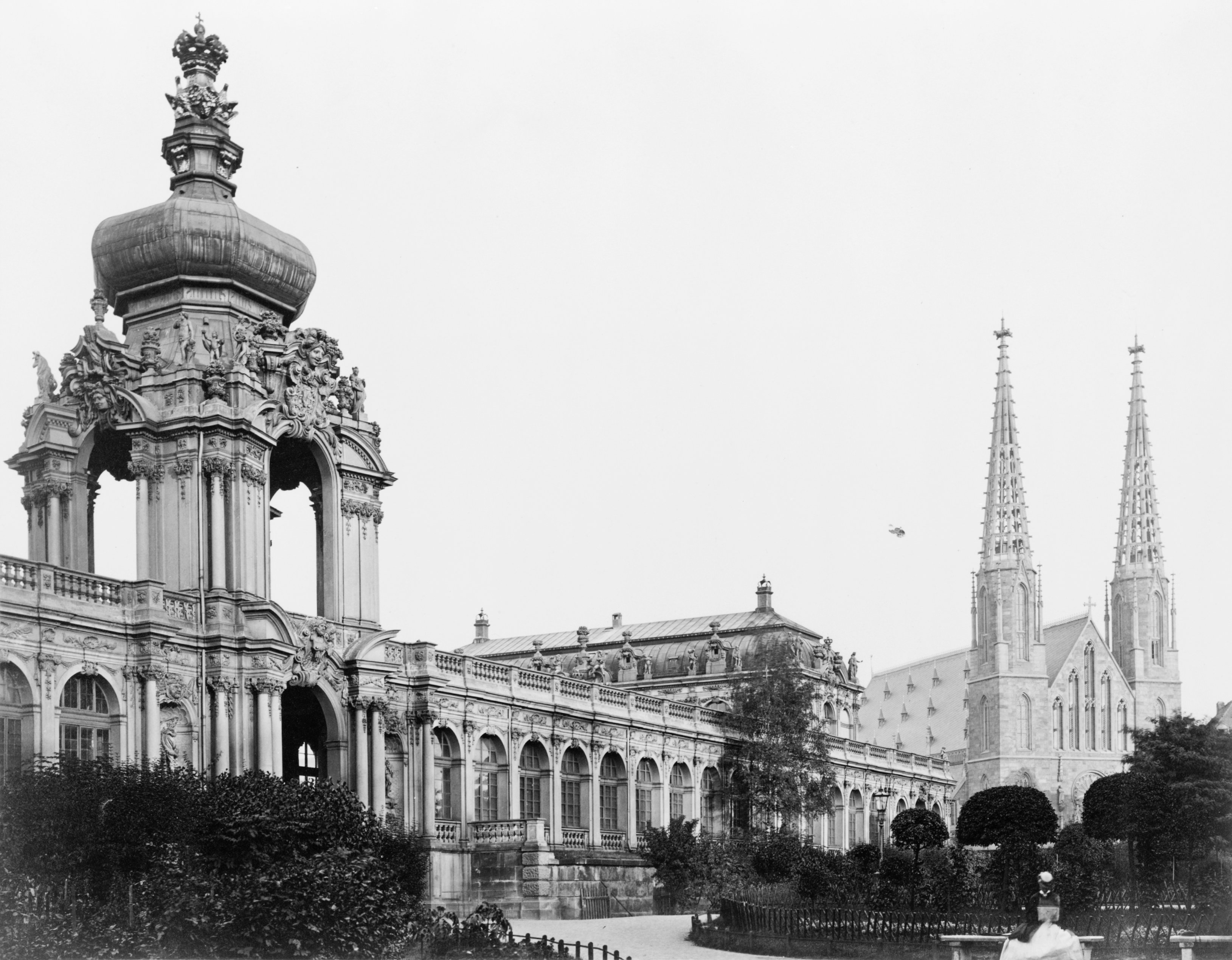 Dresden, Germany, Zwinger Kronentor, Sophienkirche , between 1860 and 1890